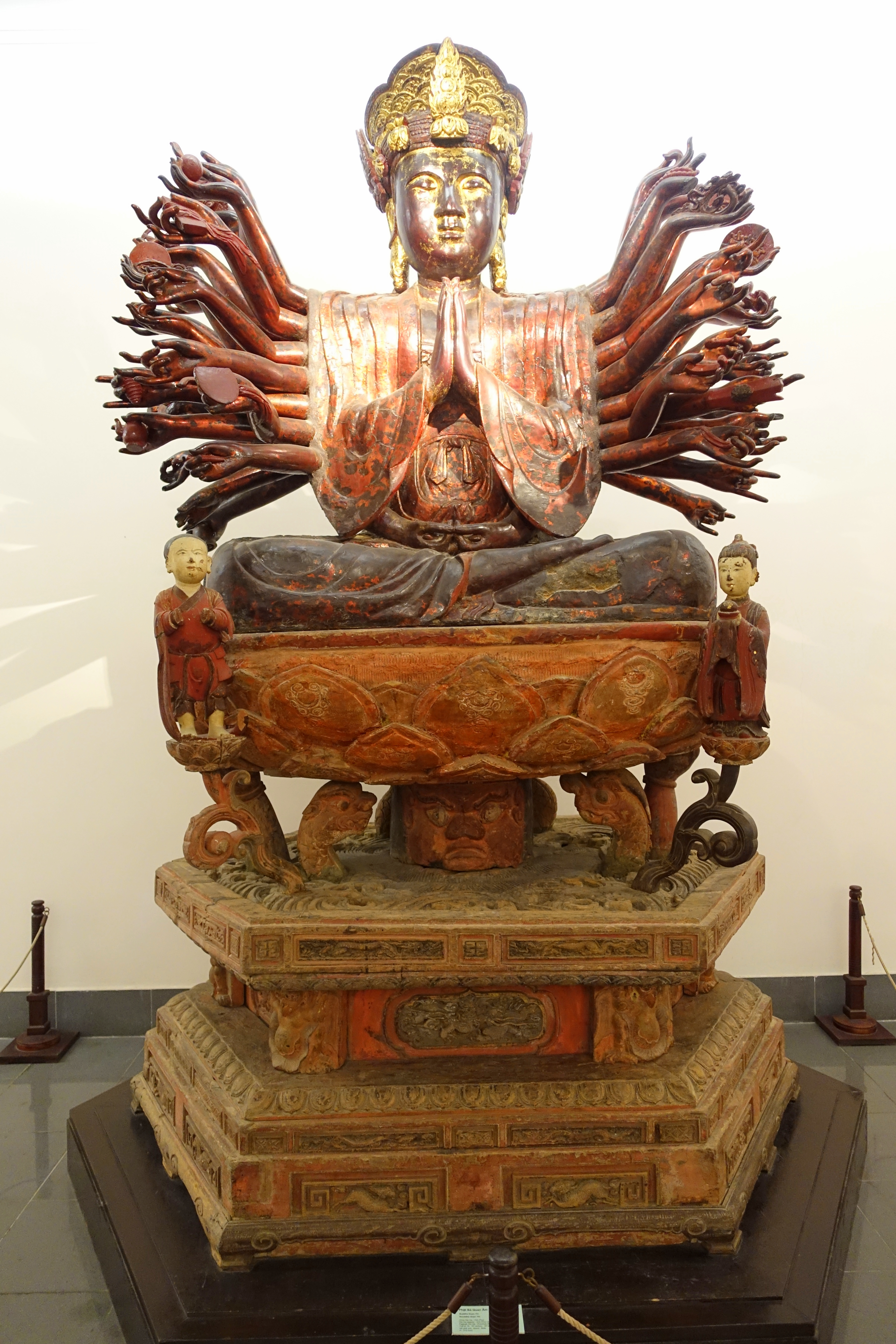 Exhibit in the Vietnam National Museum of Fine Arts - Hanoi, Vietnam. This artwork is old enough so that it is in the public domain.